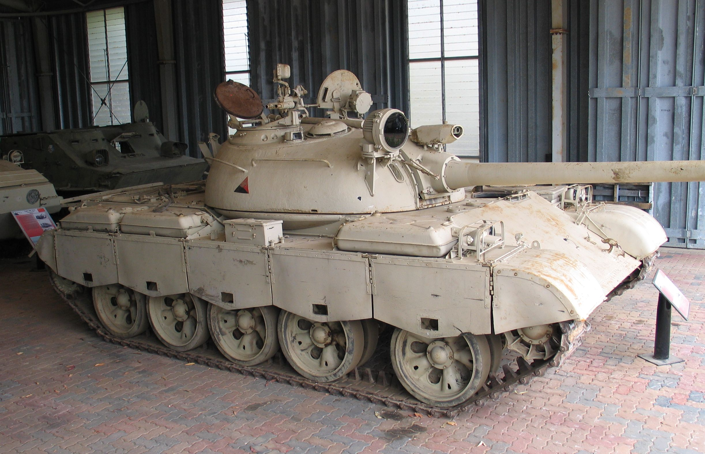 Type 69 II Command Tank Type B in Royal Australian Armoured Corps Tank Museum, Puckapunyal, Australia. This tank was captured from Iraq during the 1991 Gulf War.